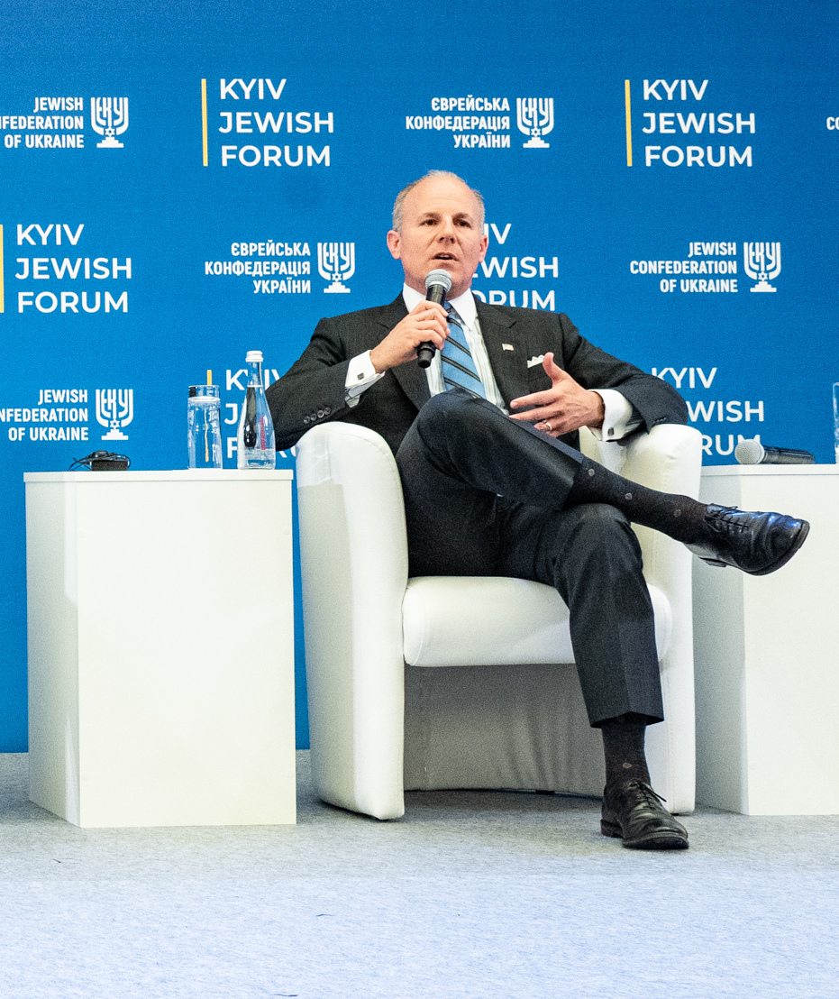 Elan S. Carr, US Special Envoy on Combating Anti-Semitism Francois Croquette, Human Rights Ambassador of France Pavlo Klimkin, Minister of Foreign Affairs of Ukraine Andrew Baker, Representative of the OSCE Chairperson-in-Office on Combating Anti-Semitism Moderator – Robert Singer, CEO and Executive Vice President World Jewish Congress